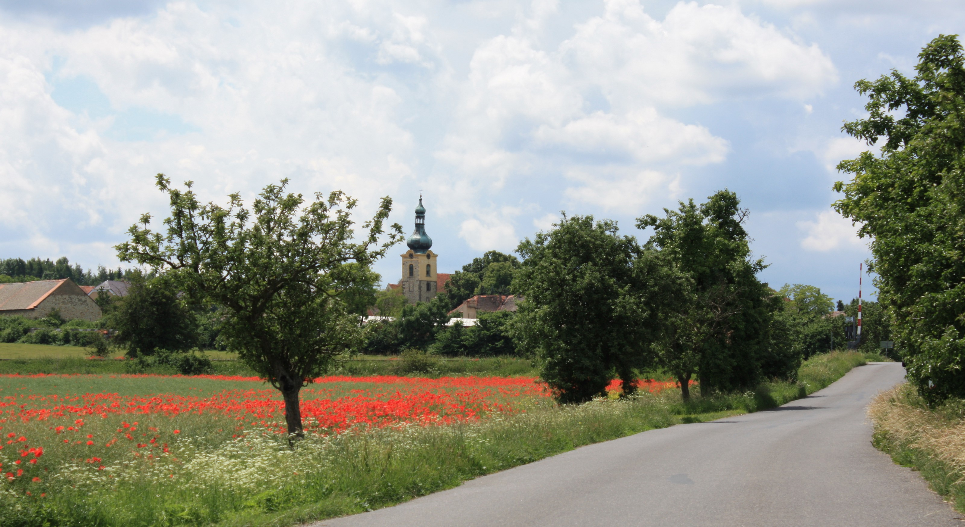 Vrbno nad Lesy, view from street to Hřivčice